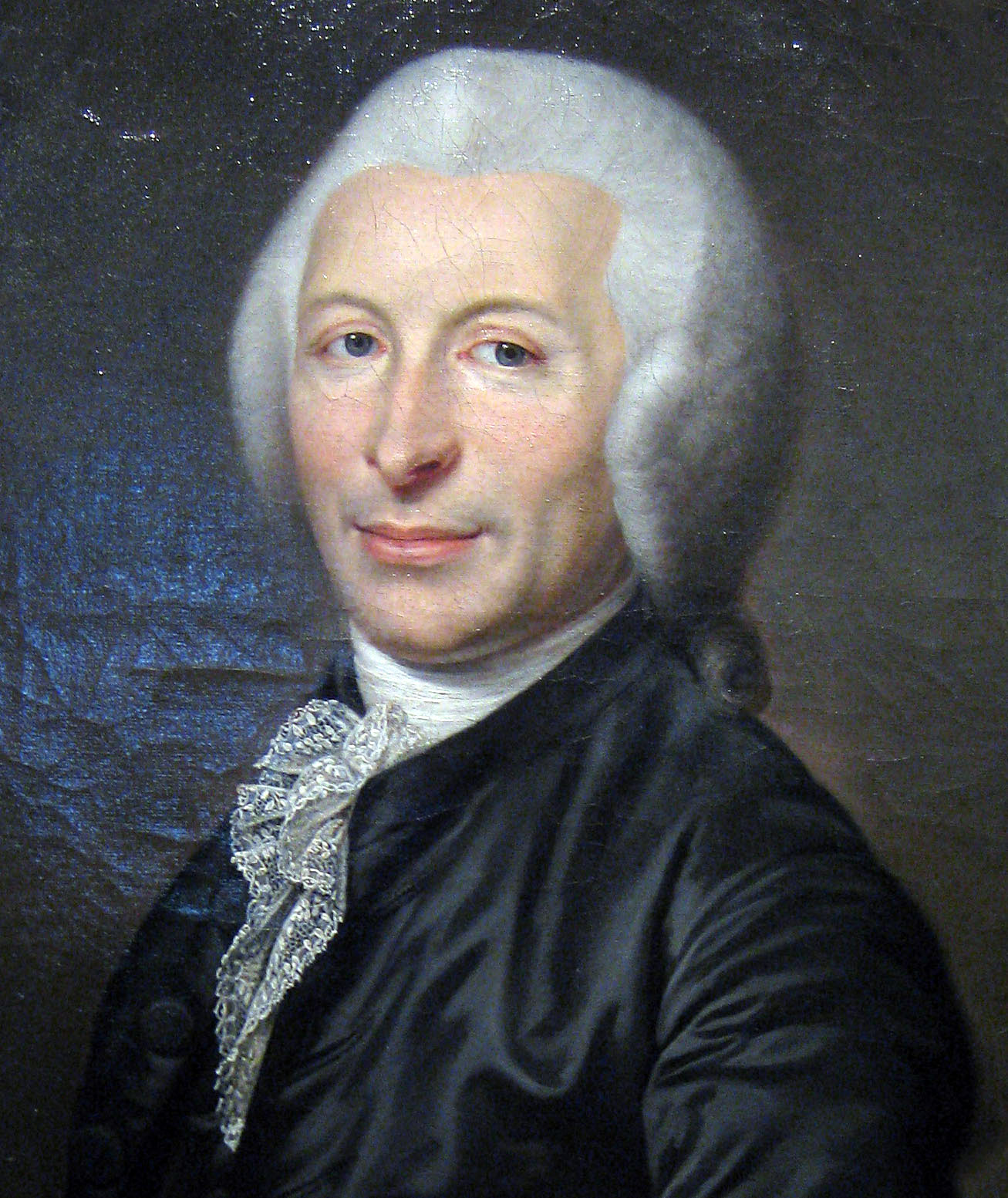 Portrait of Joseph-Ignace Guillotin, Jean-Michel Moreau, in the Musée Carnavalet, Paris, France. This work is about two centuries old, and the museum imposed no restrictions on photography (except for prohibiting flash) both in writing and when I explicitly asked. Thus the original work itself is free from intellectual property restrictions.